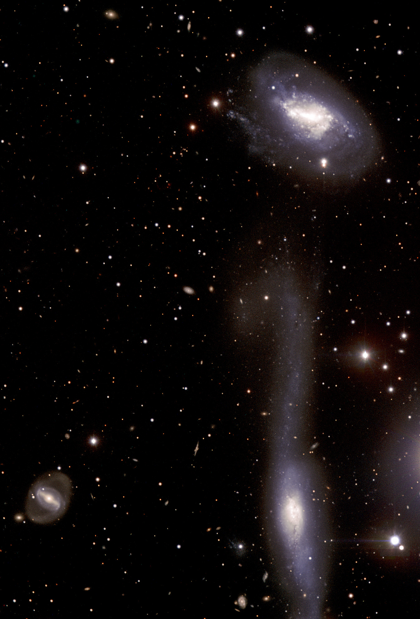 Composite image based on data acquired with the FORS1 multi-mode instrument in April and May 2006 for the European Supernova Collaboration. The observations were made in four different filters (B, V, R, and I) that were combined to make a colour image. The field of view covers 5.6 x 8.3 arcmin. North is up and East is to the left. The observations were done by Ferdinando Patat and the Paranal Science team (ESO), and the final processing was done by Olivia Blanchemain, Henri Boffin and Haennes Heyer (ESO). ID: phot-22-06 Press Release: ESO 22/06 Long Caption Object: NGC 5917 Telescope: UT2/Kueyen Instrument: FORS1 Credit: ESO